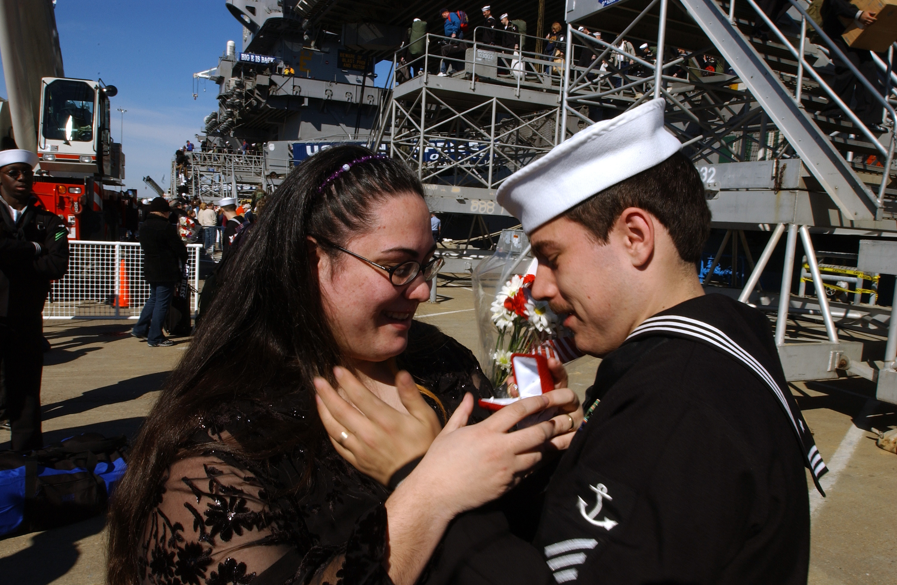 Naval Station Norfolk, Va. (Feb. 29, 2004) – Seaman Stephen Aulds presents an engagement ring to his bride following his deployment aboard USS Enterprise (CVN 65). The couple, who have been married nearly two years, weren’t able to purchase a ring prior to getting married. The nuclear powered aircraft carrier Enterprise returned to Norfolk, Va. following a six-month deployment in support of the global war on terrorism with missions supporting Operations Iraqi Freedom and Enduring Freedom. U.S. Navy photo by Chief Journalist Dave Fliesen. (RELEASED)